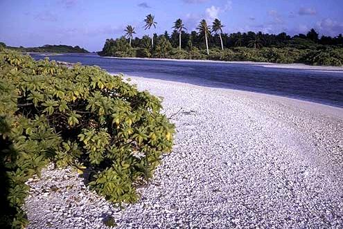 Caroline Atoll (Kiribati), channel between west side of Long Island and Nake Island (in background)